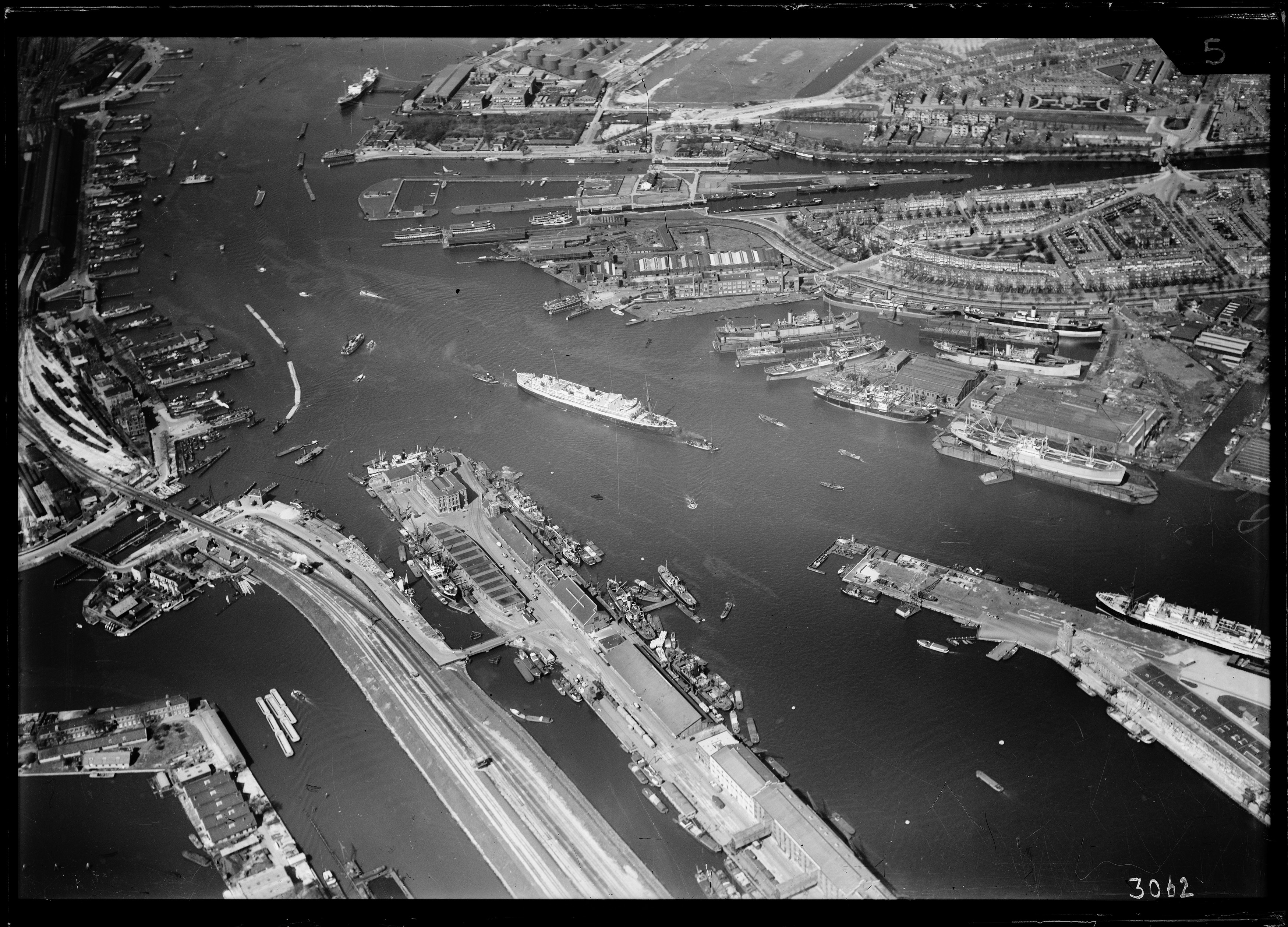 Aerial photograph of Amsterdam, The Netherlands. Central railway station, IJ, Noordhollandsch Kanaal.